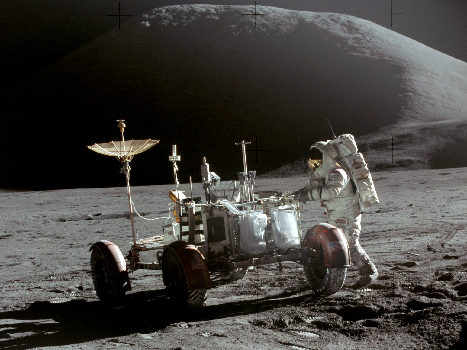 Image from Apollo 15, taken by Commander David Scott at the end of EVA-1. Lunar Module Pilot Jim Irwin is seen with the Lunar Roving Vehicle, with Mount Hadley in the background. Seen on the back of the Rover are two SCBs mounted on the gate, along with the rake, both pairs of tongs, the extension handle with scoop probably attached, and the penetrometer. Note that the TV camera is pointed down, in the stowed position.